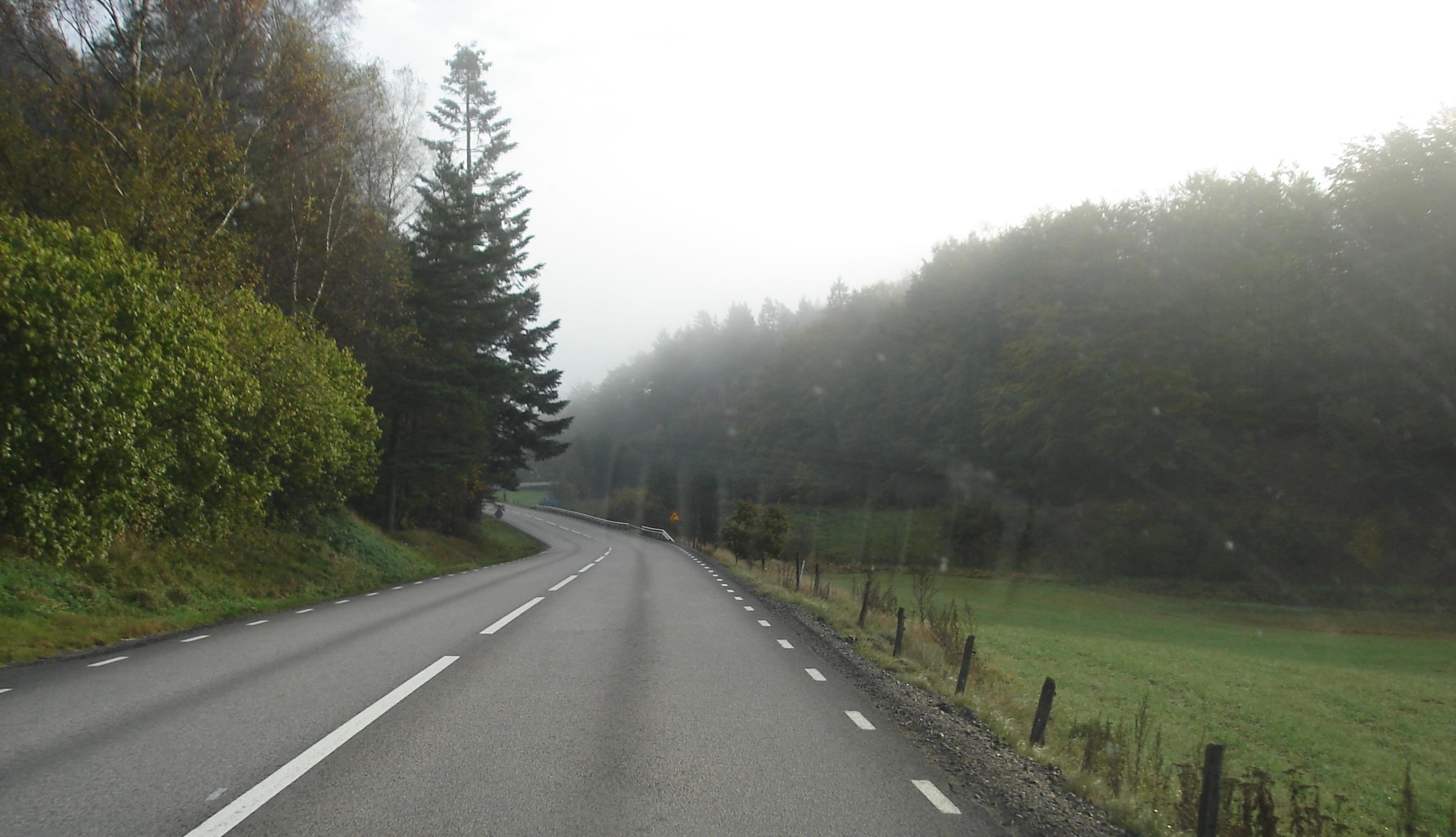 Road 153 in Haksered between Varberg and Ullared, southwest Sweden, Europe. The picture is taken in eastbound direction.